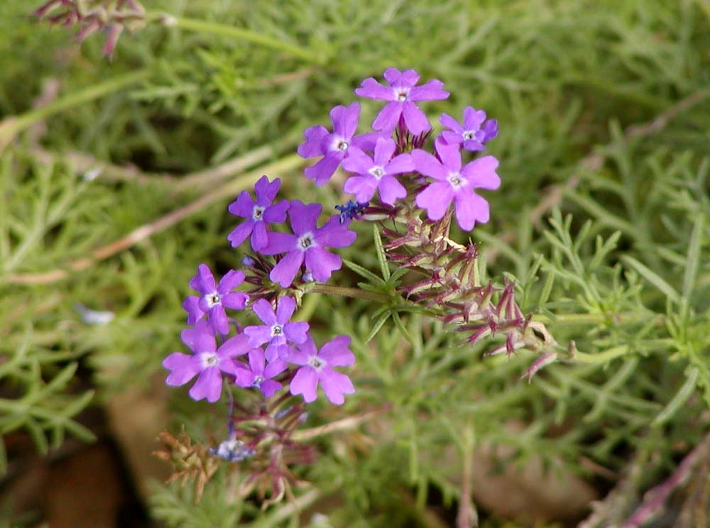 Photo of Glandularia sp. (syn. Verbena) at the Desert Demonstration Garden in Las Vegas